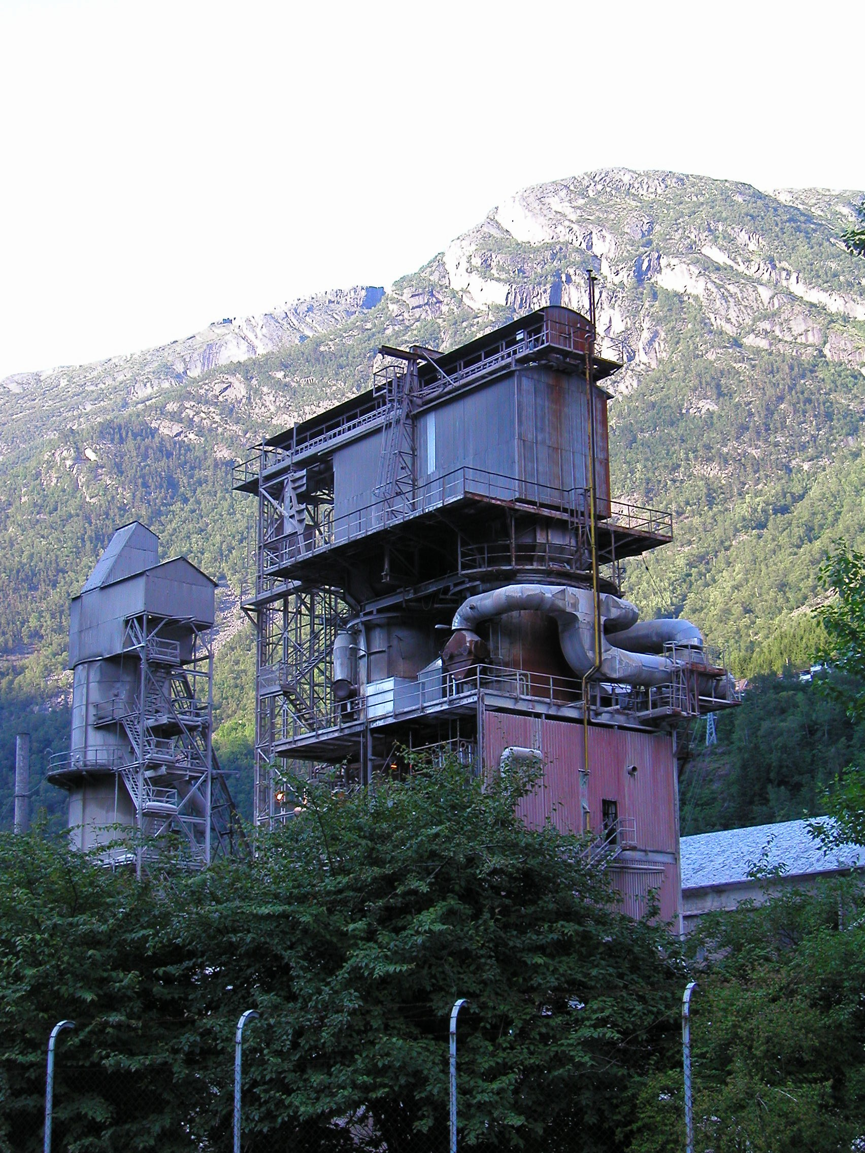 Odda Smelteverk, closed down factory in Odda in Norway.